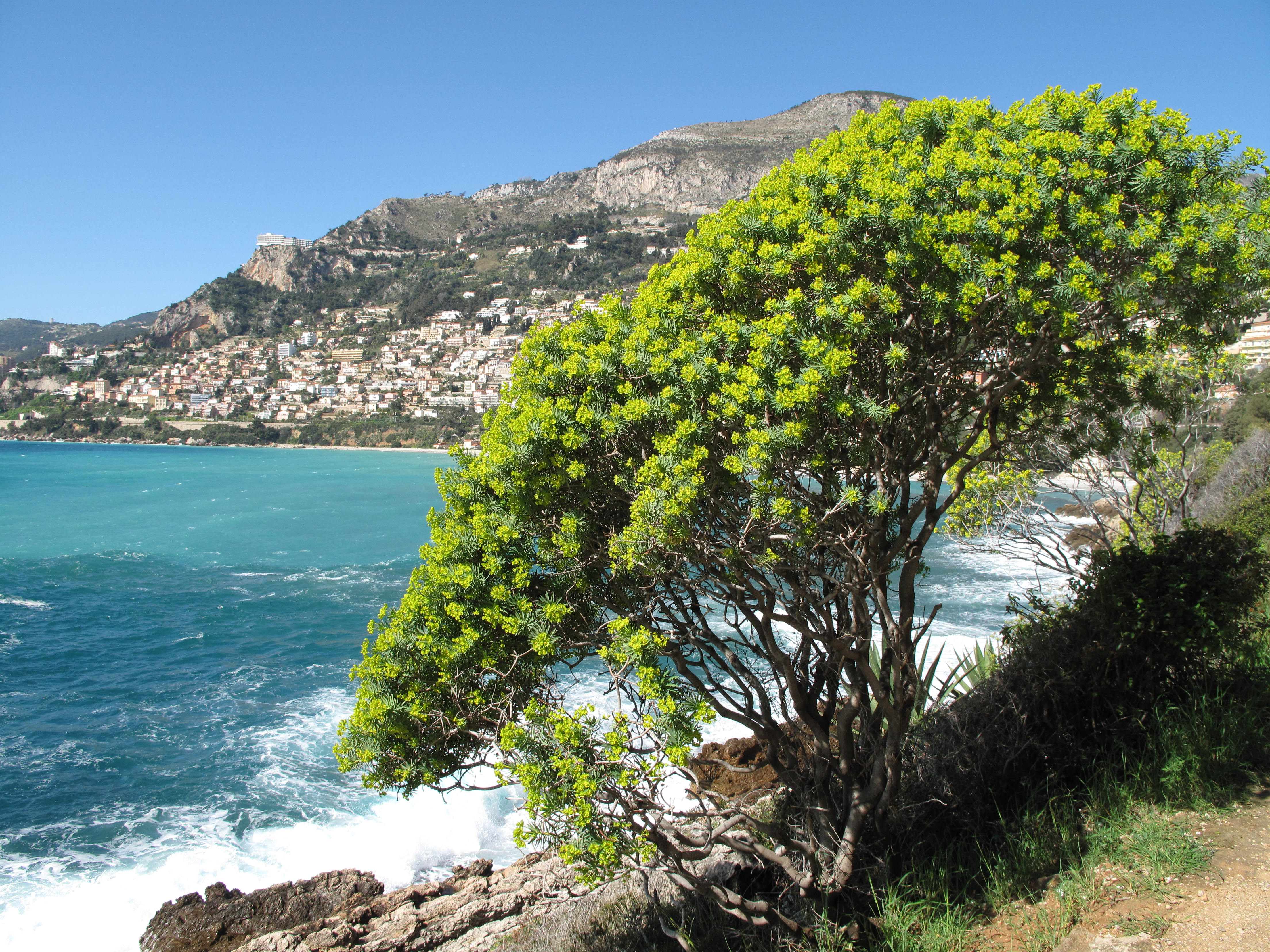 Euphorbia characias on the sea shore at Cap-Martin, France.